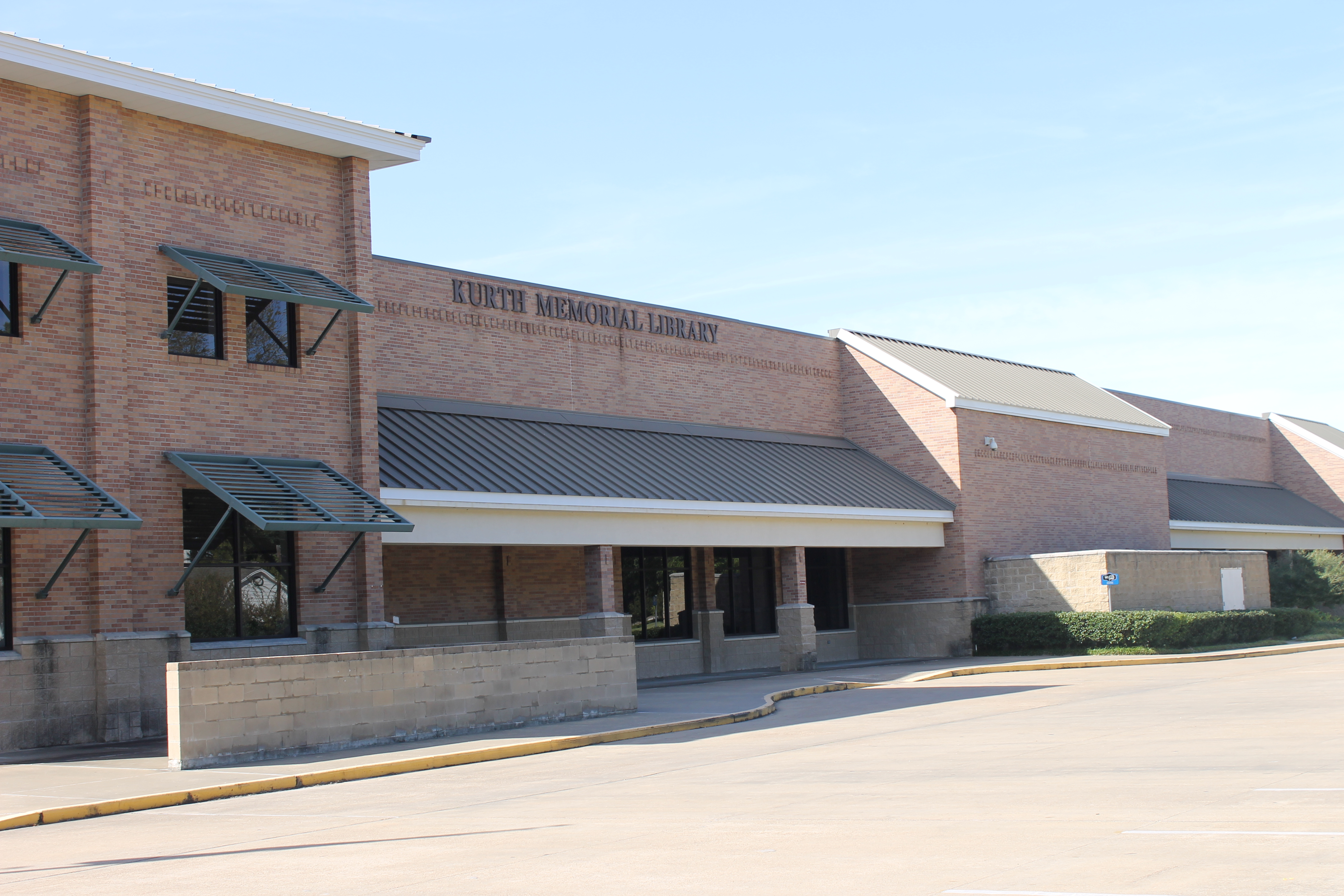 Kurth Memorial Library in Lufkin, TX